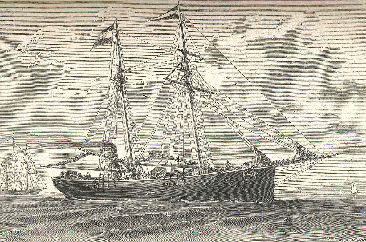 Germania Subject: Germania (Ship), Sailing ships Tag: Vessels